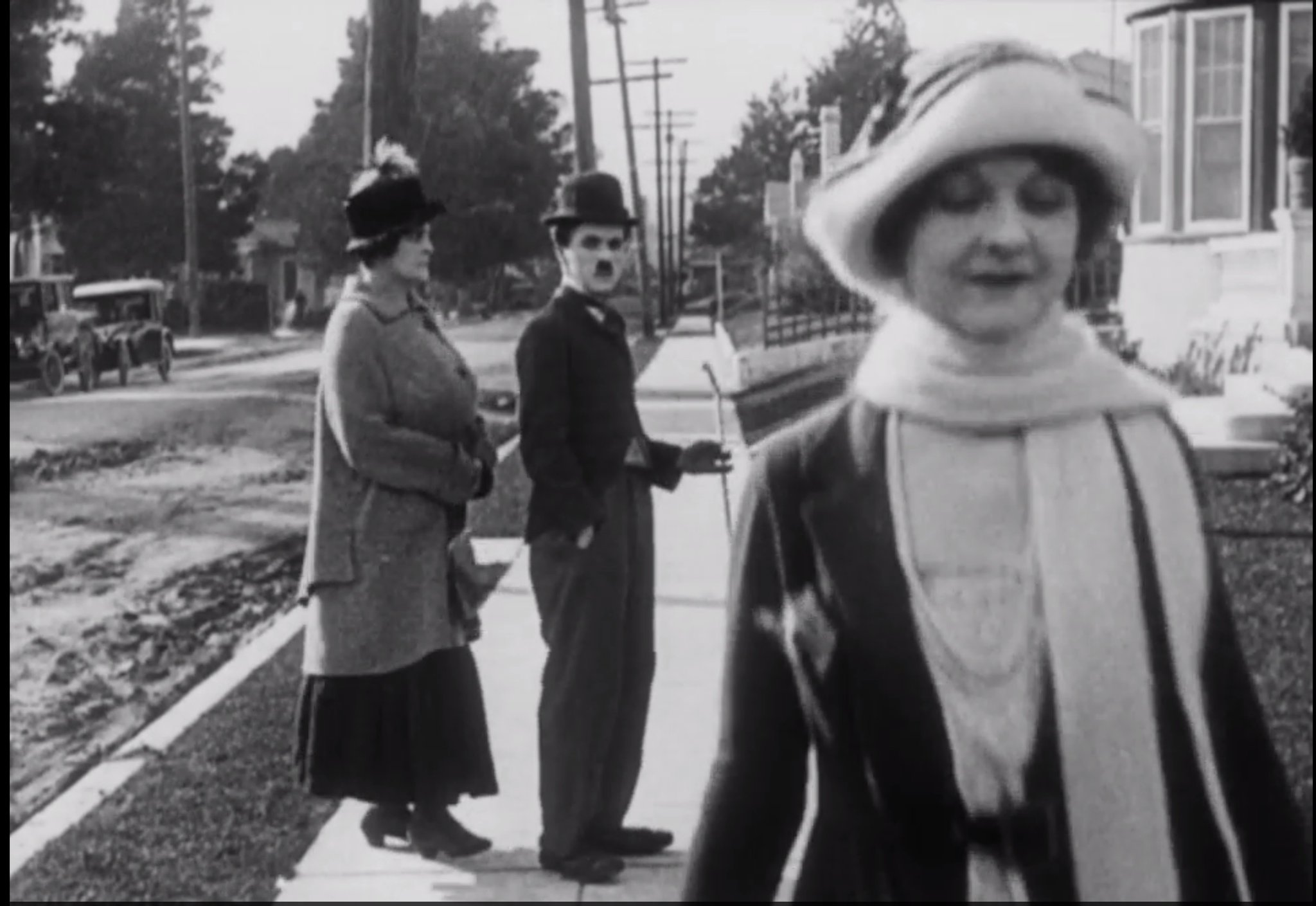 One of the earlier Distracted Boyfriend situations on film. The good thing is, that it's in Public Domain, so can be reused at will. See Permission below.